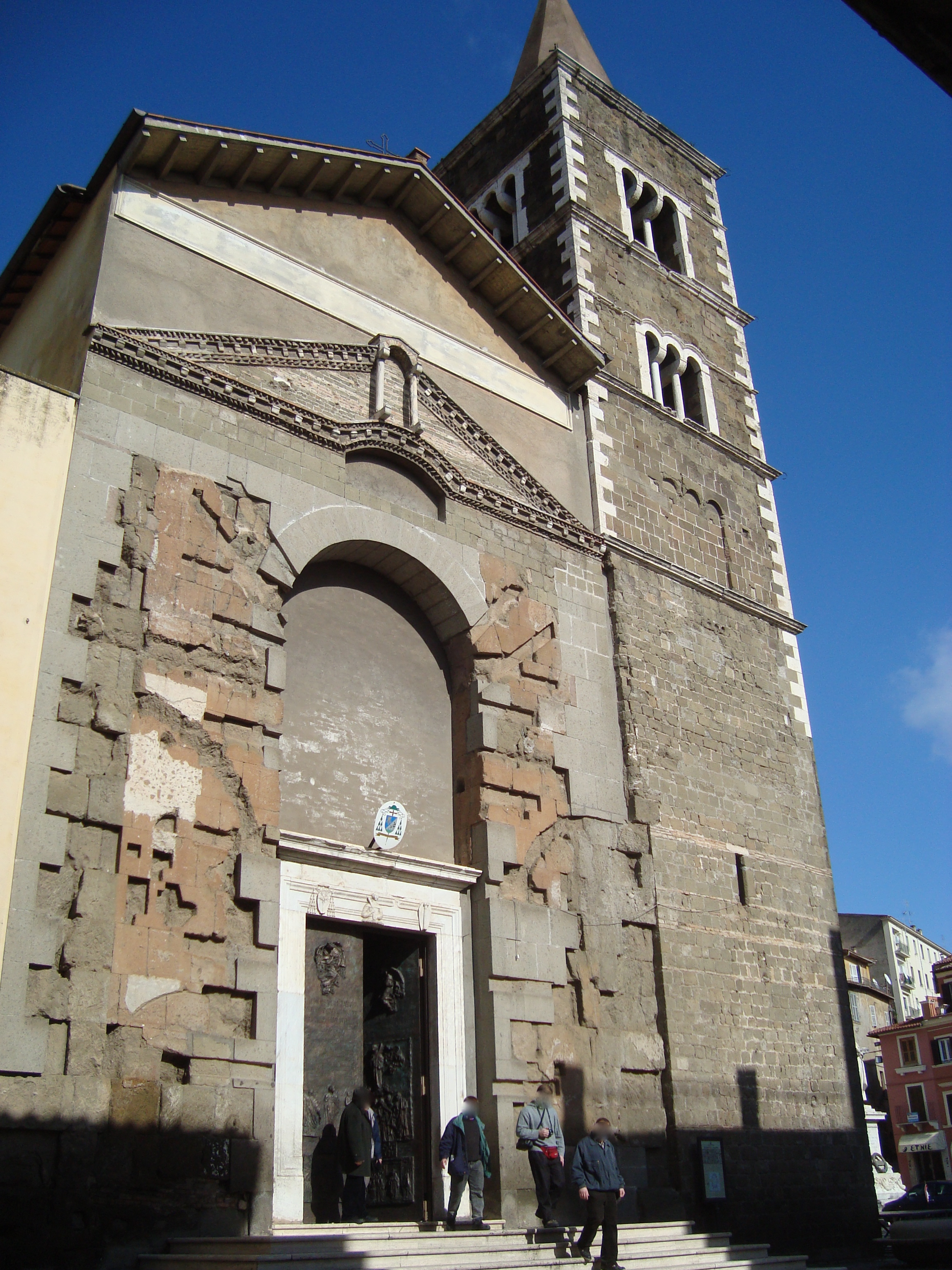 Main portal of the cathedral Sant'Agapito in Palestrina